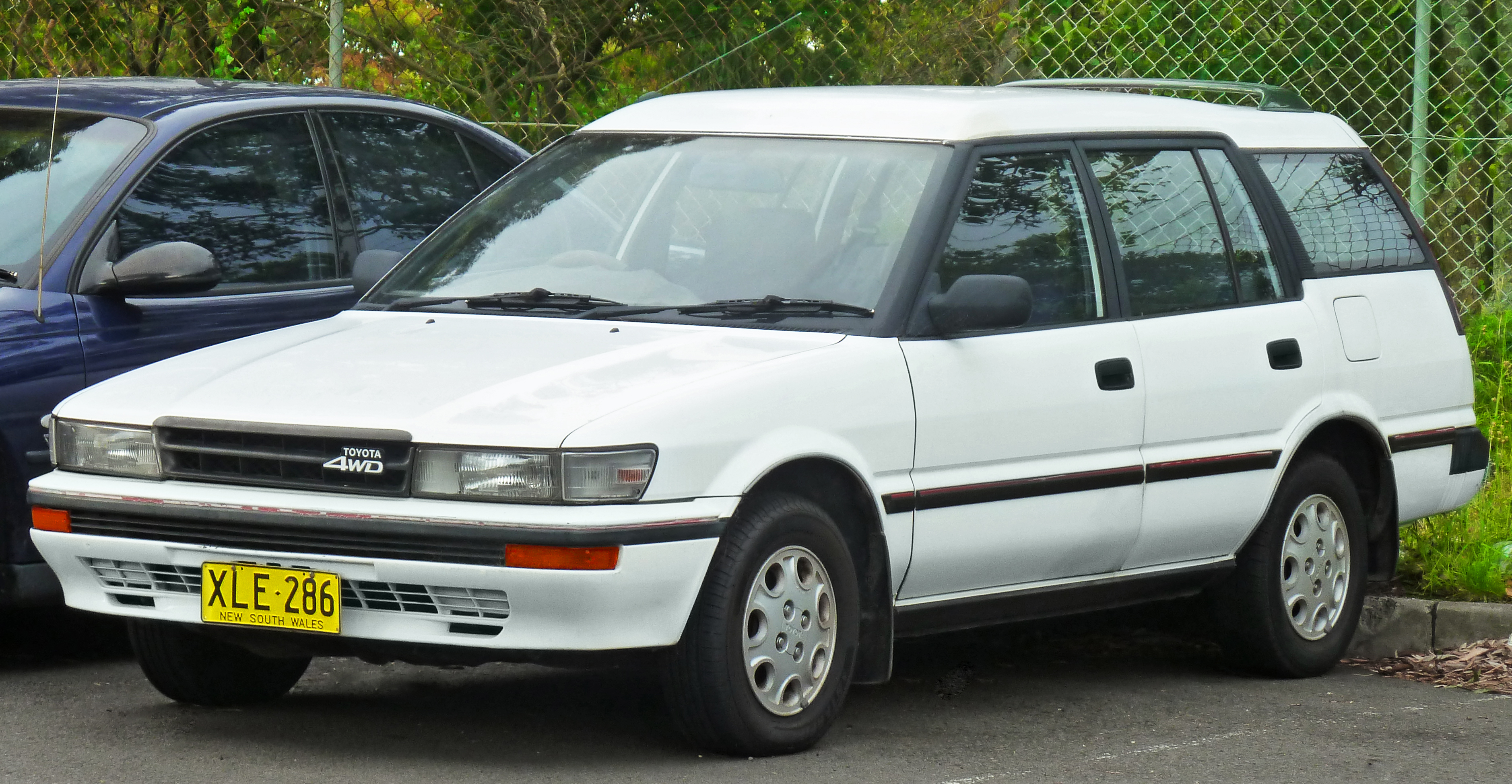 1989 Toyota Corolla (AE95R) SR5 station wagon. Photographed in Kirrawee, New South Wales, Australia.